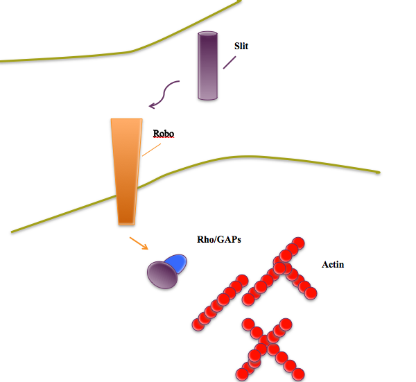 This image depicts the interaction between slit and robo in axon guidance.